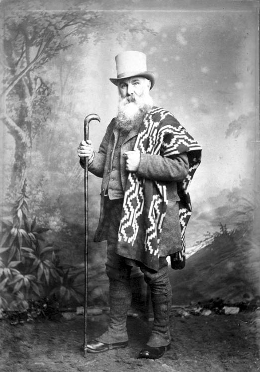 The Reverend Michael D. Jones (1822-98), was born in the village of Llanuwchllyn, near Bala. Jones was a Welsh patriot and Congregationalist minister, and is widely regarded as the pioneer of the movement to establish a Welsh settlement in Patagonia